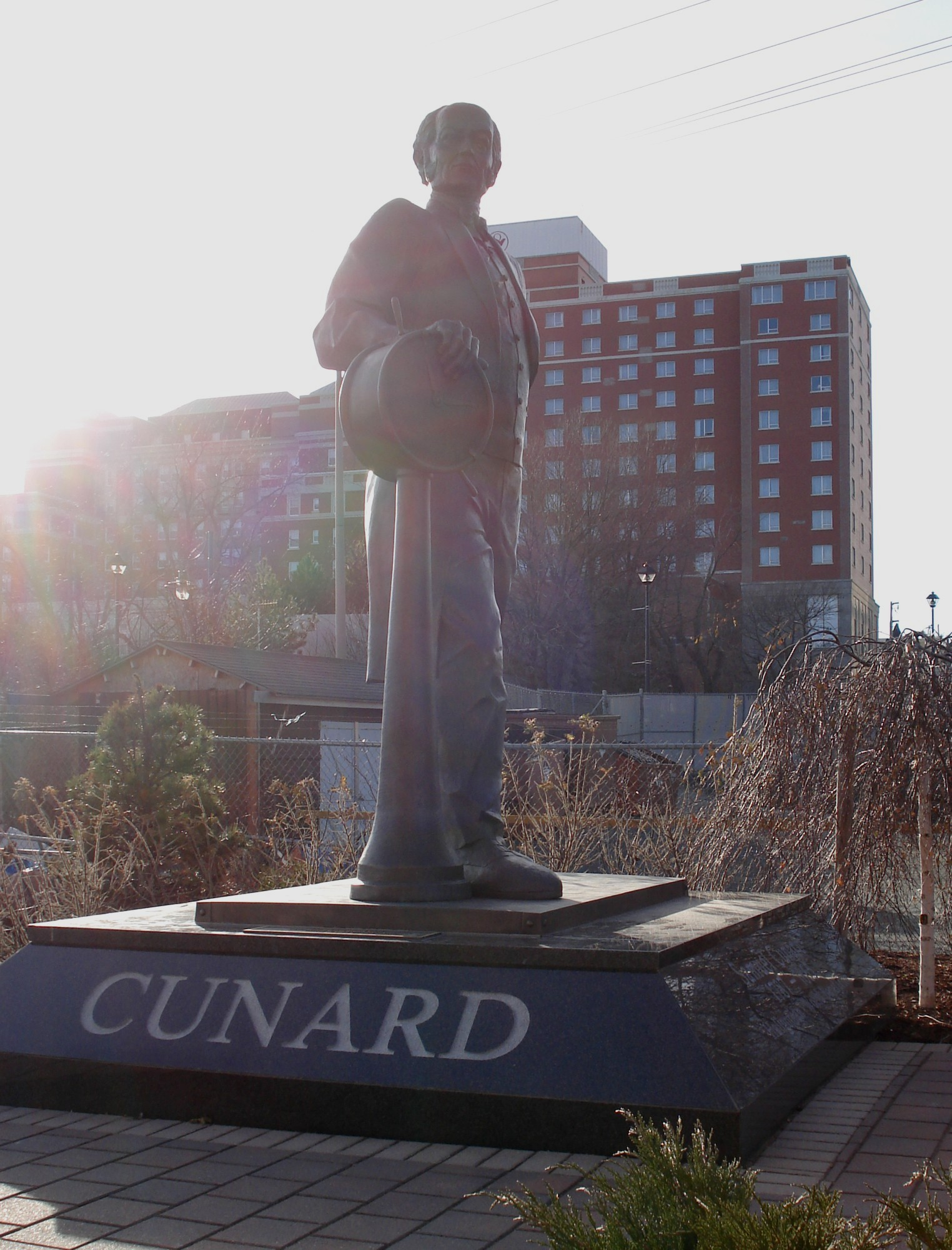 A statue of Samuel Cunard, near Pier 21 on Halifax waterfront, Samuel Cunard, was born in 1787 in Halifax, Nova Scotia. Picture taken on 25 December 2006 by Bryson109 (myself).